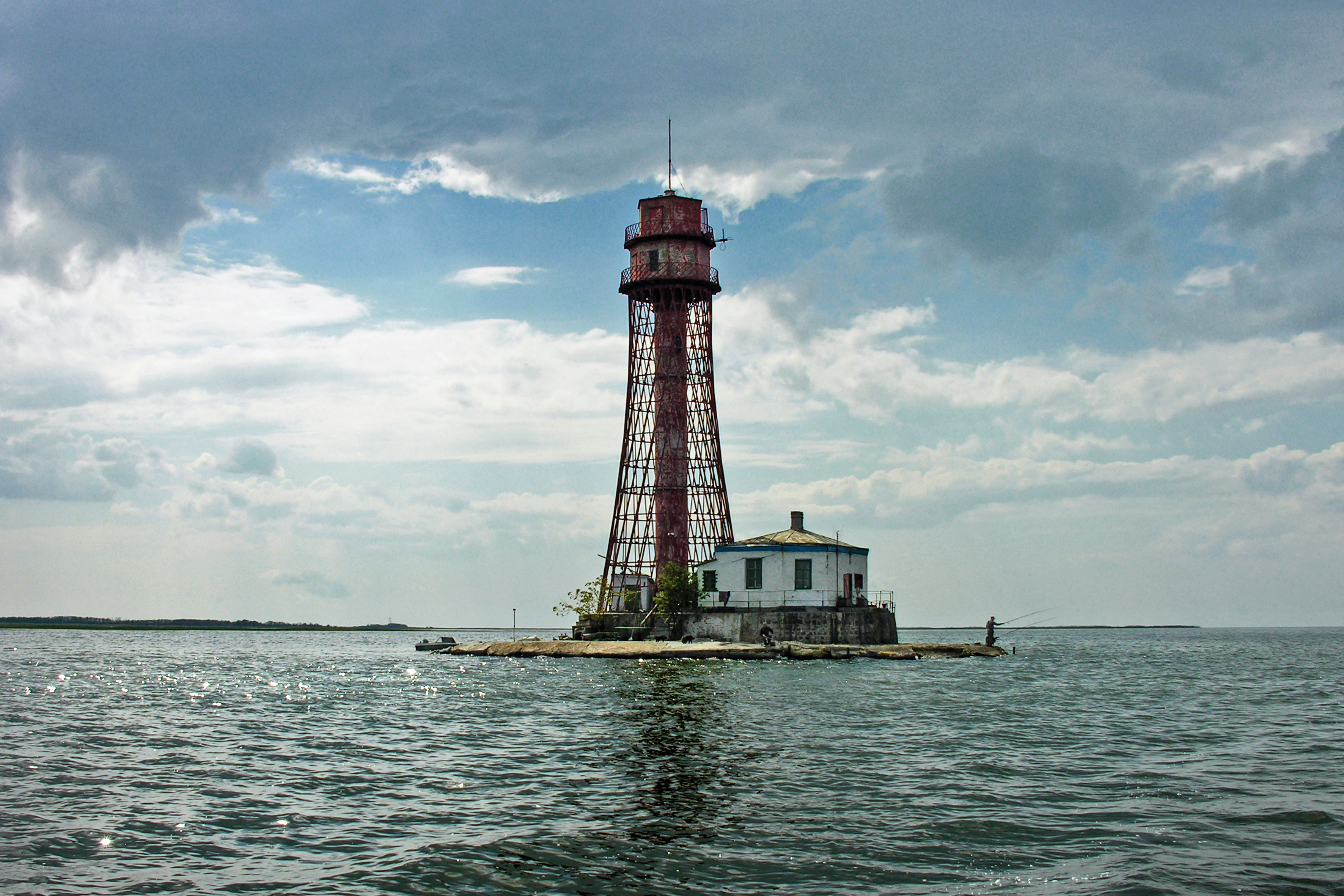 Stanislav Range Front Light, 2008